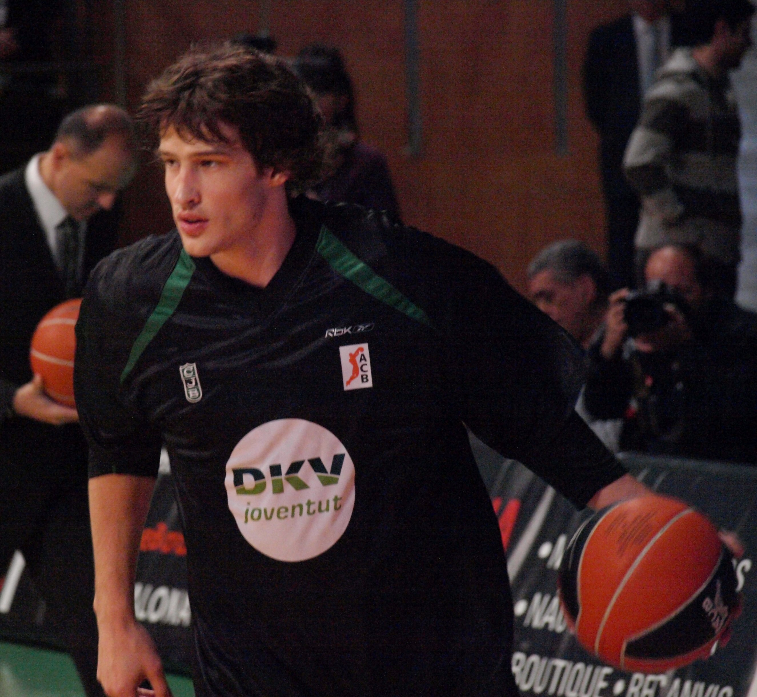 Simas Jasaitis with Badalona "Joventut" jersey.